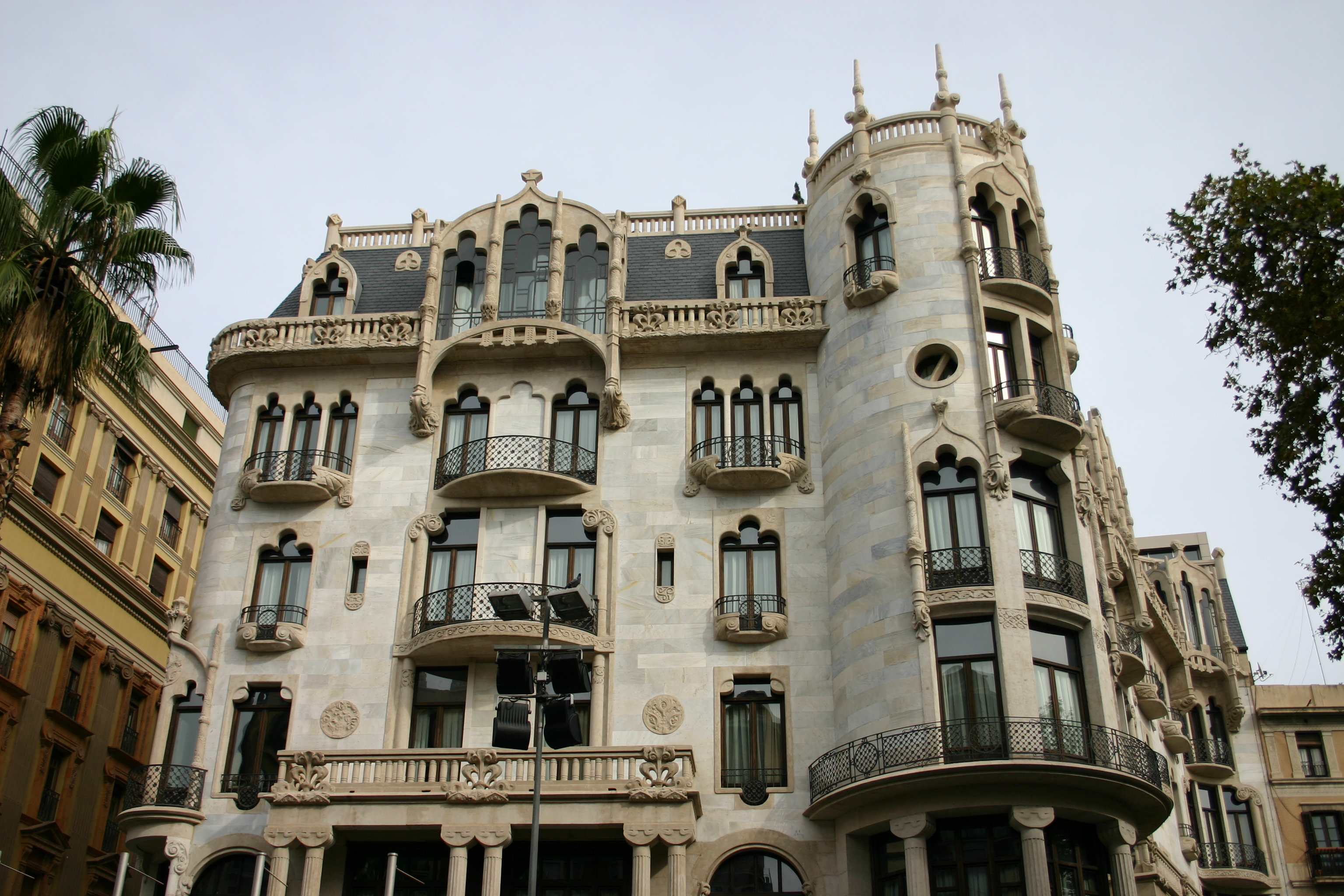 Casa Fuster. Architect:Lluís Domènech i Montaner